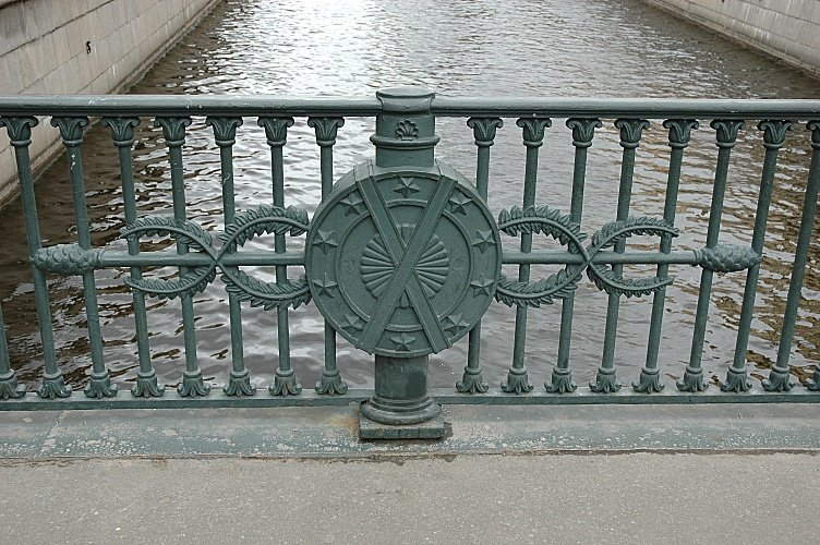 Italian (Italianskii) bridge, detail. St Petersburg, Griboedova channel.